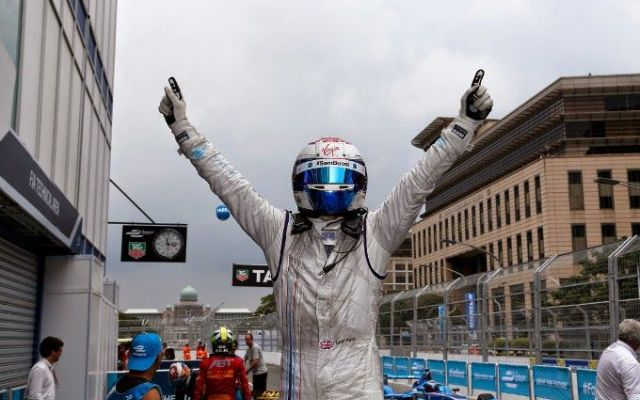 Sam Bird in the 2014 Putrajaya ePrix